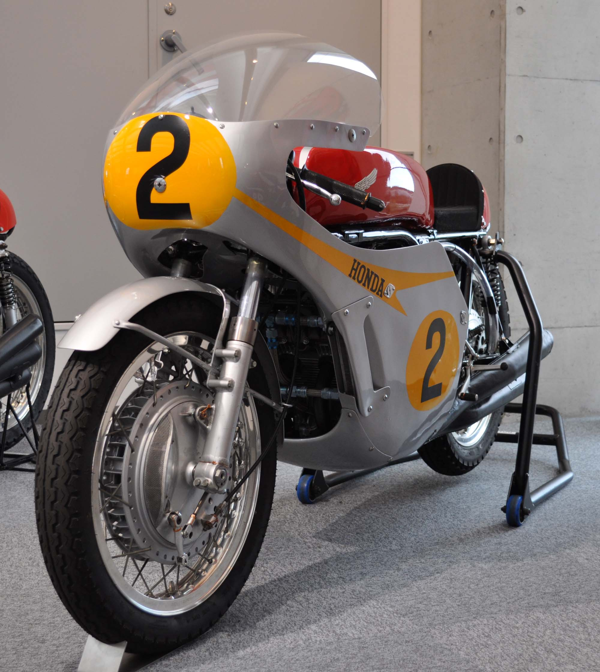 Honda RC181 (MIke Hailwood, Dutch TT in 1967)